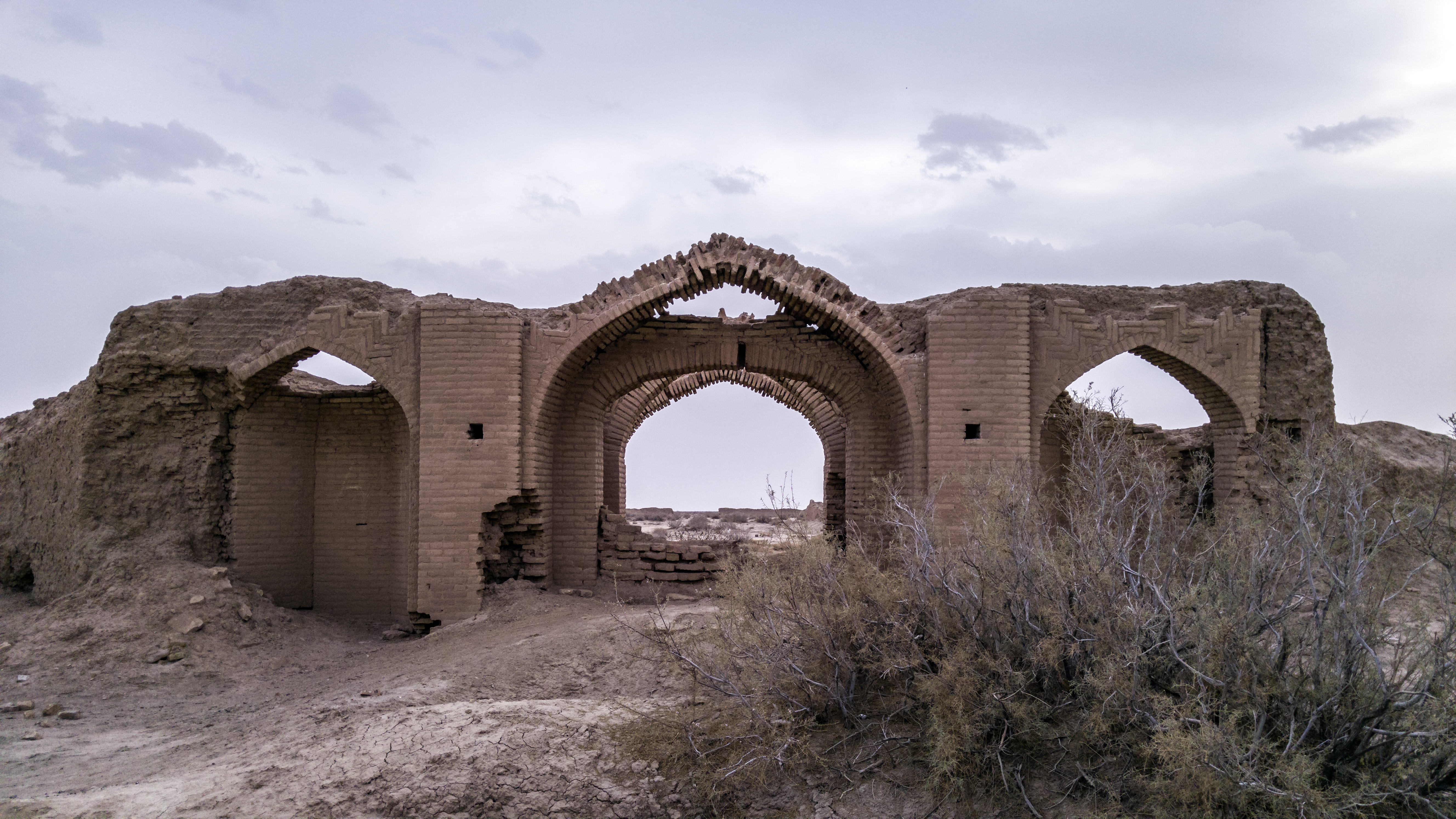 Deir-e Gachin Caravansarai is one of the greatest caravansarais of Iran which is located in the center of Kavir National Park. Its unique qualities is the reason it is called “Mother of Iranian Caravansarais”.